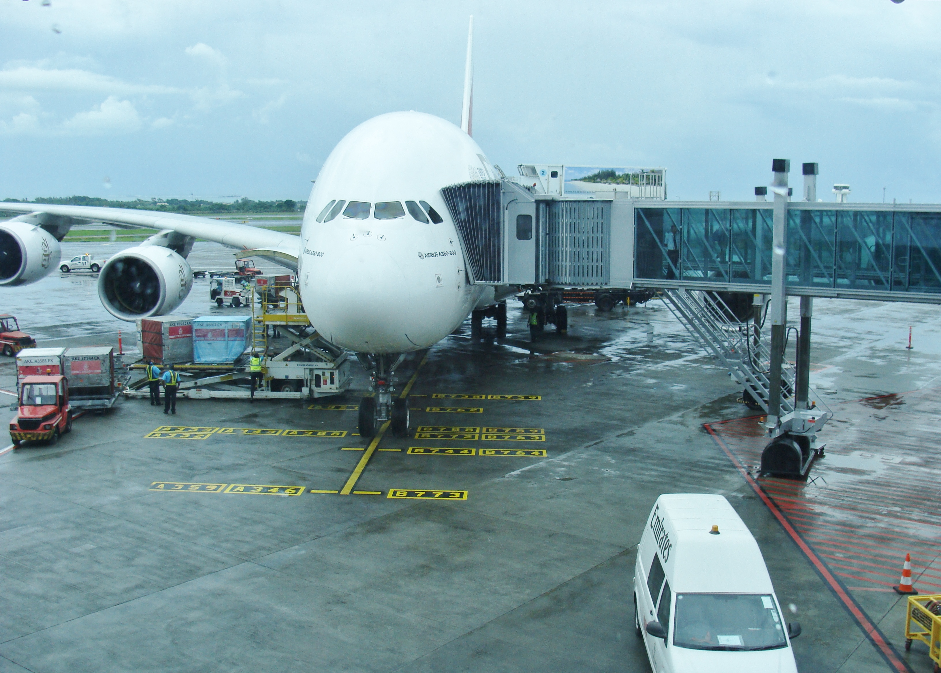 Emirates Airbus A380 at Sir Seewoosagur Ramgoolam International Airport in Mauritius